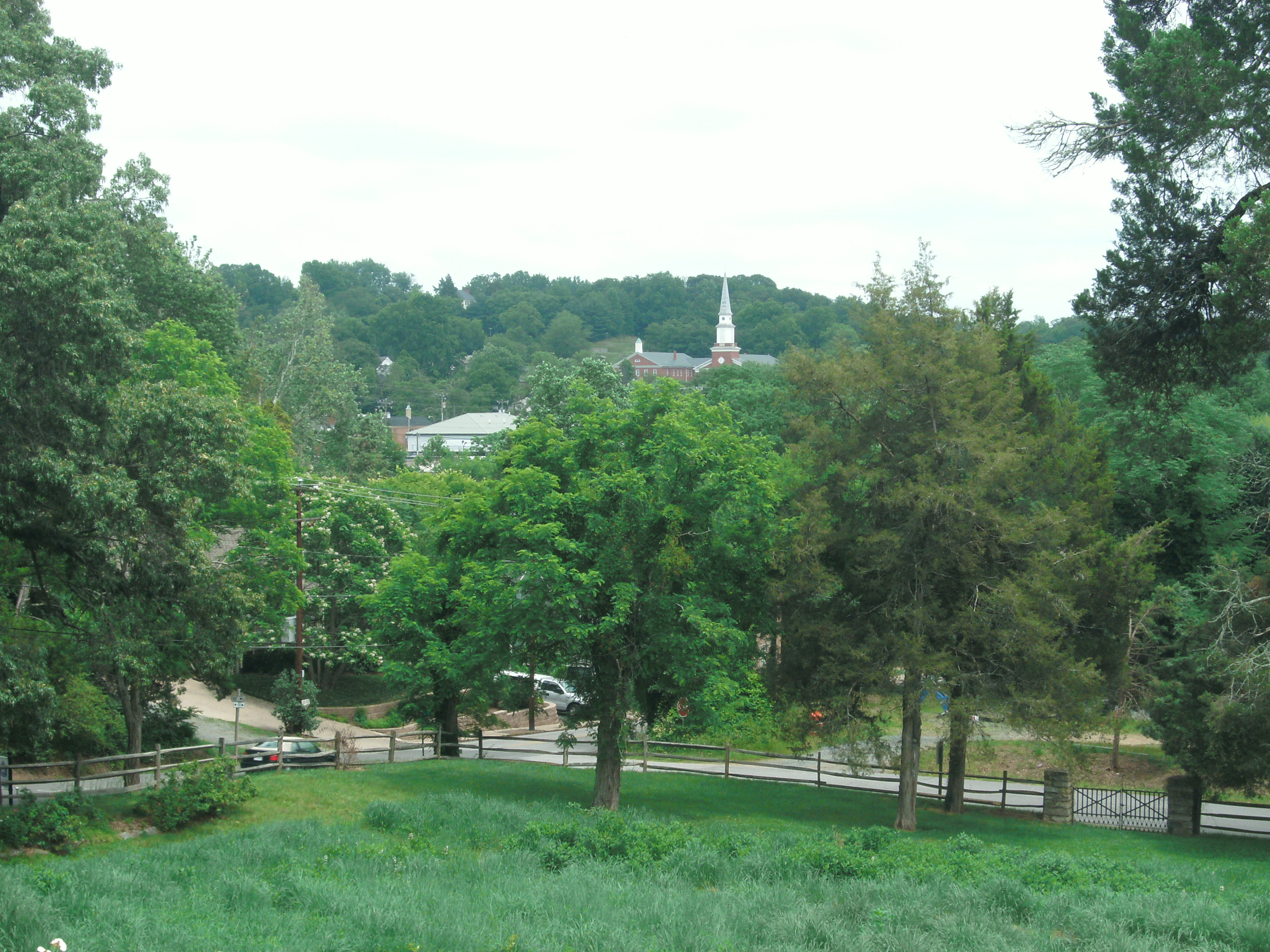 Falmouth, Virginia as seen from Belmont house